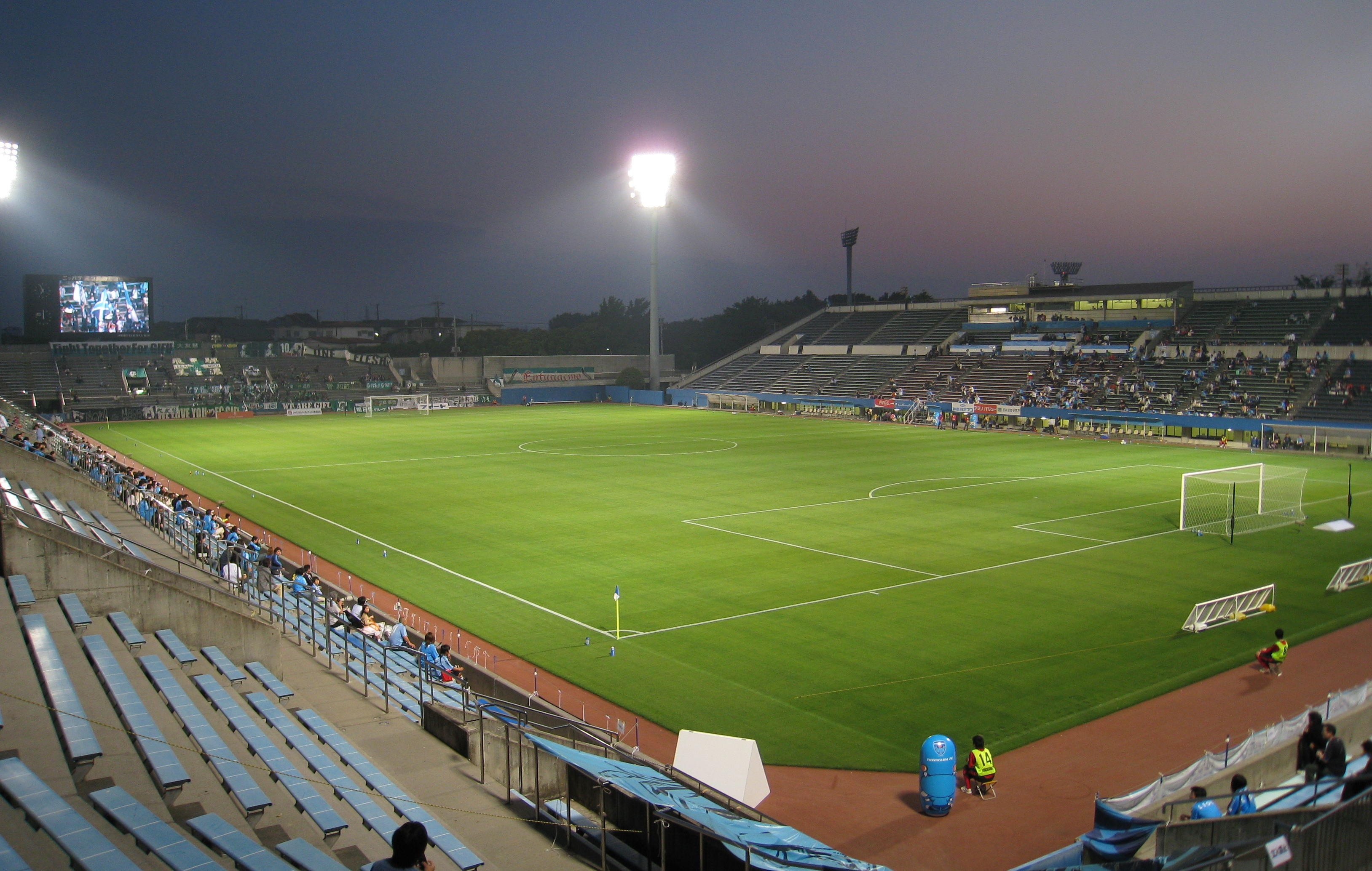 Mitsuzawa Football Park (Yokohama-shi Nishi-ku)